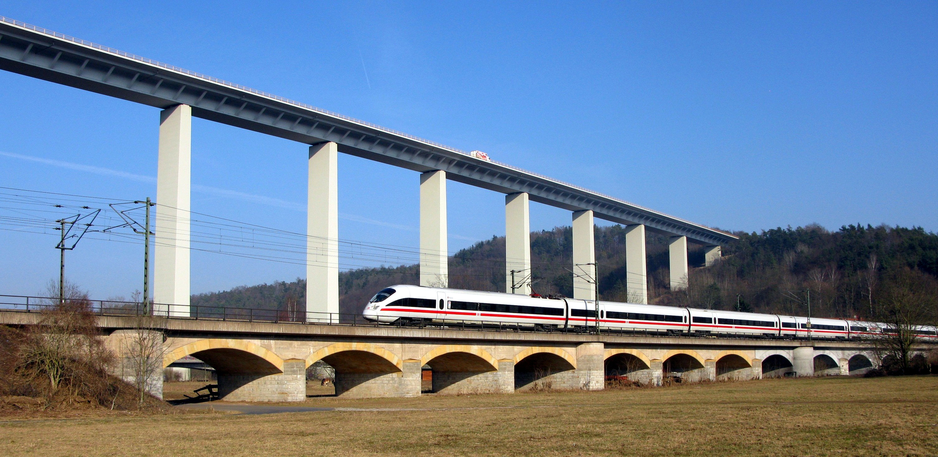 Bridges over the Werra near Hörschel